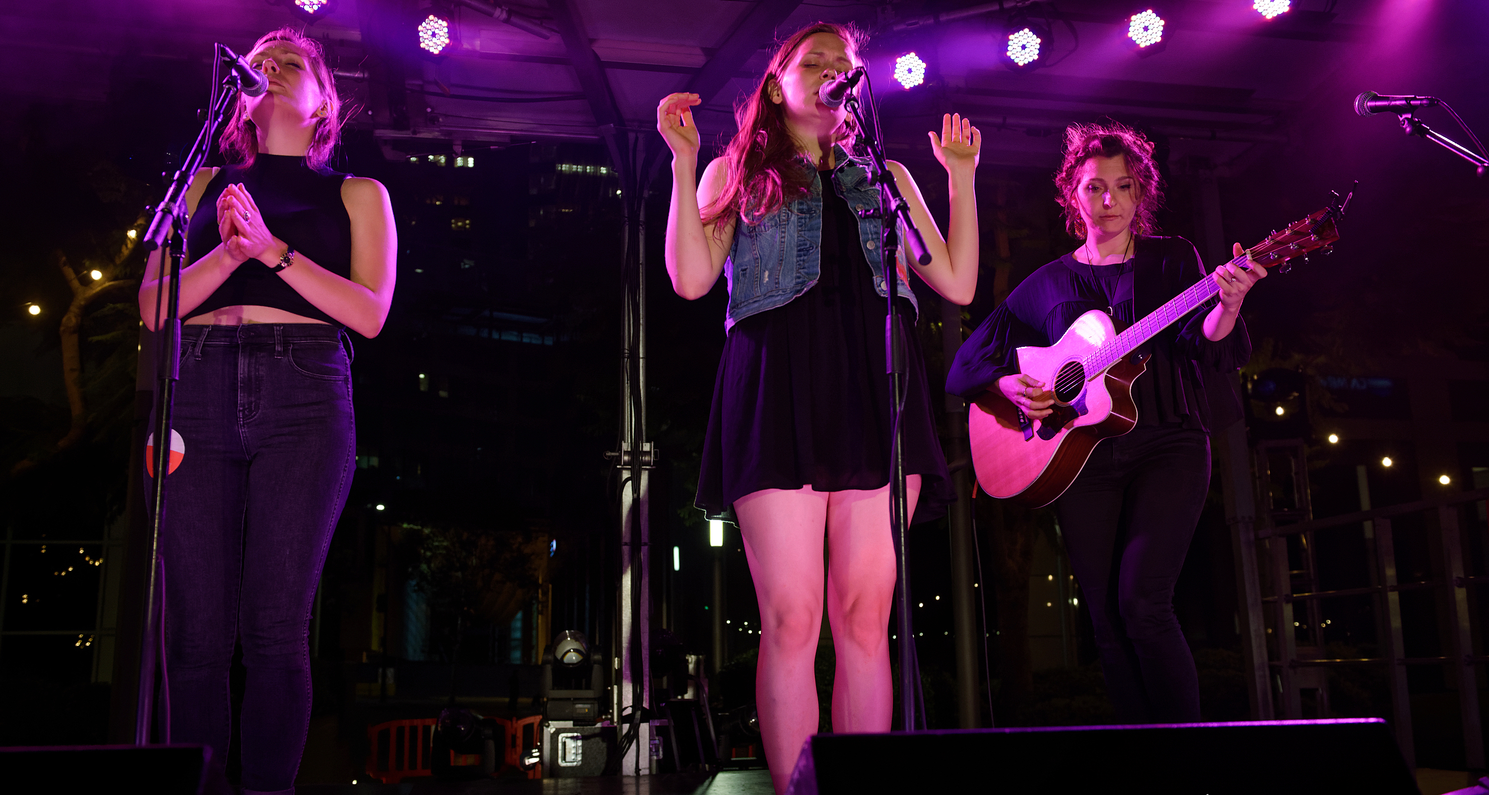 The band Joseph (Natalie, Allison, and Meegan Closner) performing live at FIGat7th in downtown Los Angeles California on Friday July 29th, 2016.